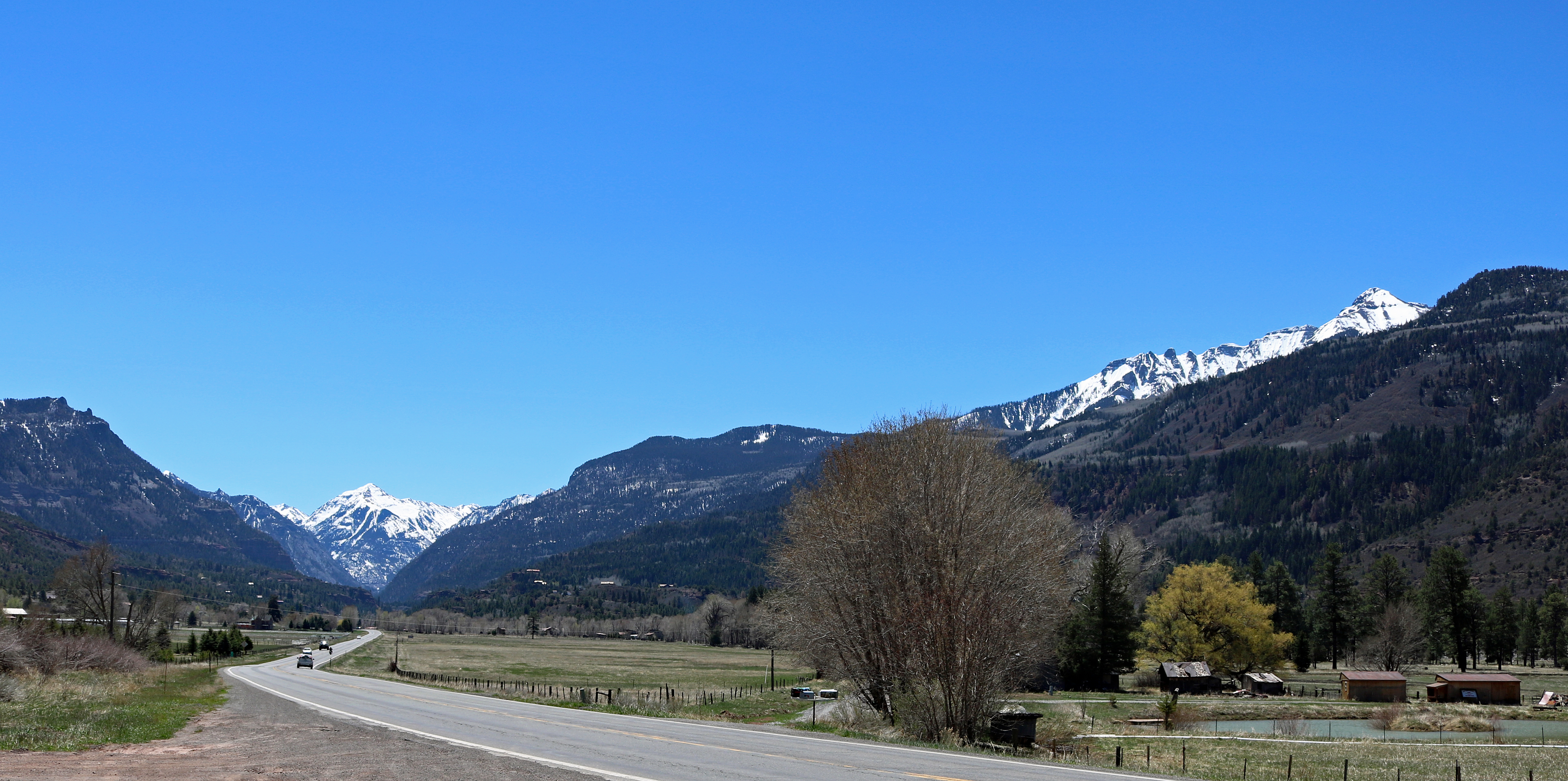 Portland, Colorado, a census-designated place in Ouray County, between Ridgway and Ouray.